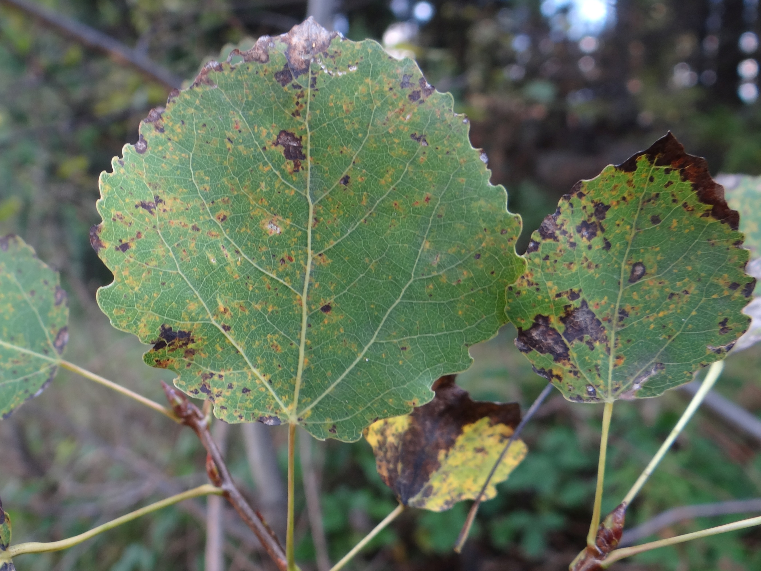 Melampsora populnea on Populus tremula (location: Poland, Beskid Wyspowy, Kobylica)